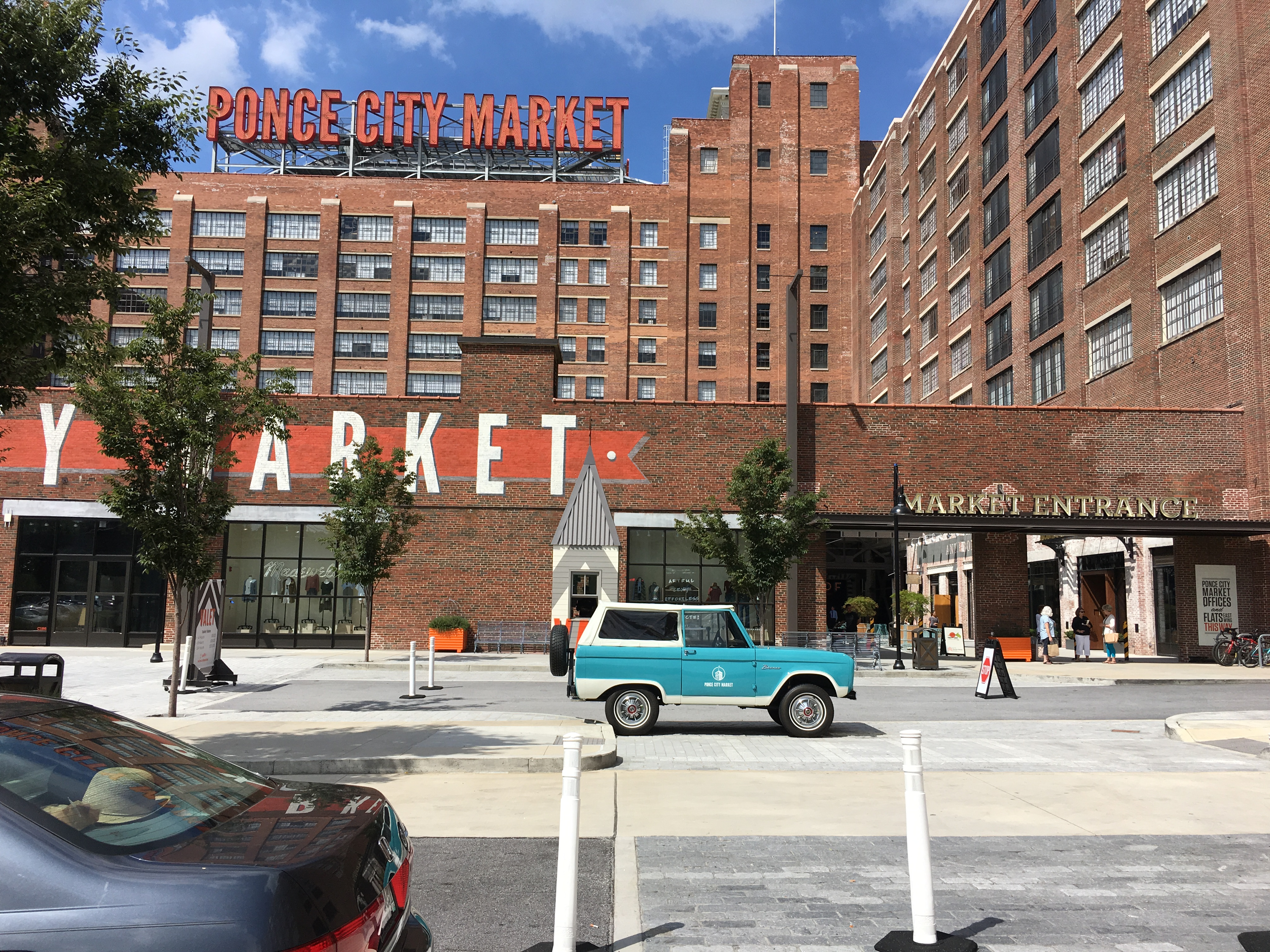 The front of the Ponce City Market showing the large neon sign on the rooftop in Midtown, Atlanta, GA. The building, originally built in 1926, was renovated into a mixed-use complex that opened in 2014.